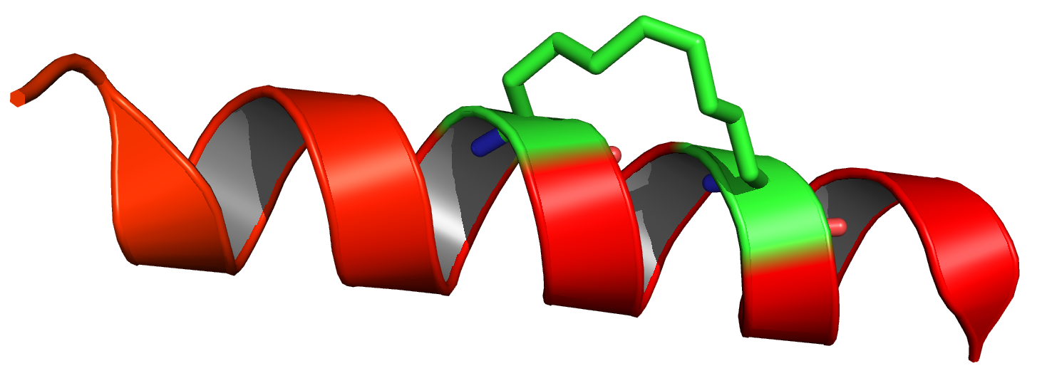 Example of stapled peptide. Helix is depicted in red and "staple" is depicted in green. Derived from PDB 4MZK ((2014) Acs Chem.Biol. 8: 506-512). Atoms not in the stapled peptide removed for clarity.